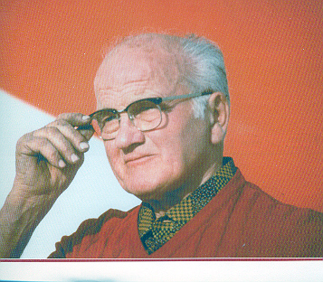 Picture of Ing. Ilario Bandini, 1988